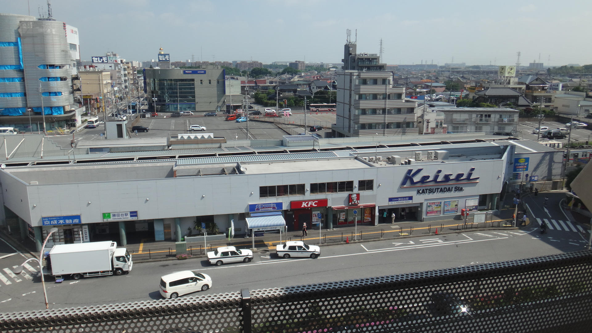 The main station entrance and forecourt for Katsutadai Station (and Toyo-Katsutadai Station) in Chiba Prefecture